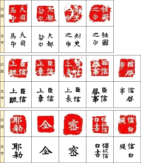 The seal is in a spherical shape with eight ridges, including 18 square faces and 8 triangular faces, its owner was the famous minister of Western Wei Dynasty Dugu Xin.